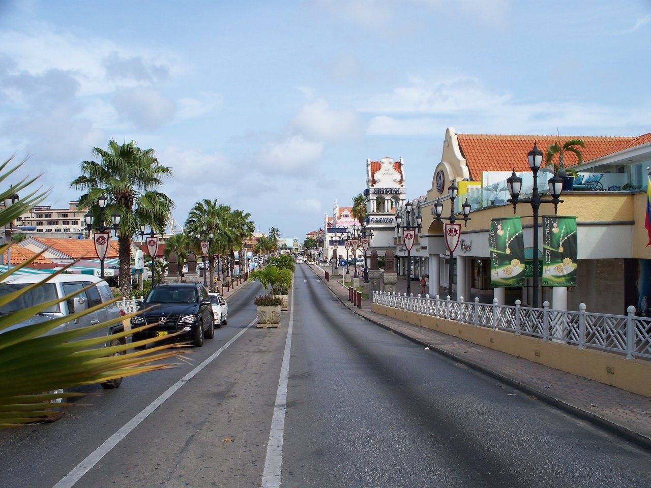 Aruba, Oranjestad, Main Street